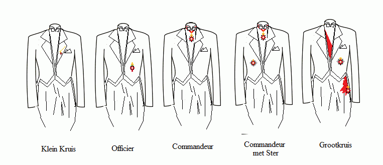 Order of Franz Jozeg Austria 1918